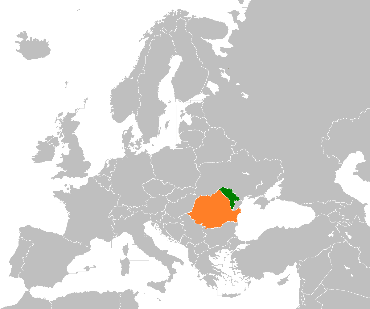 a map of the world, with Romania and Moldavia highlighted.